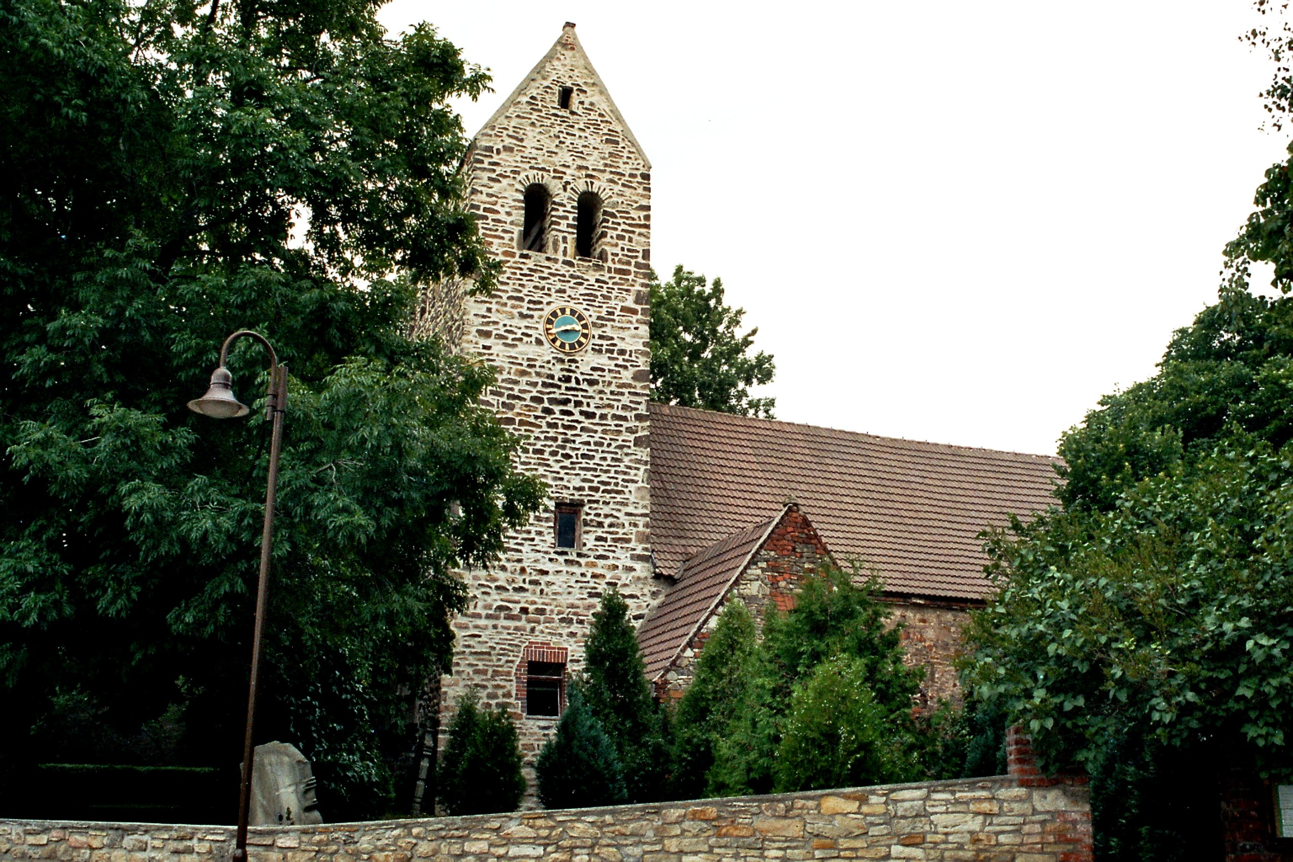 Zuchau (Barby), the village church Saint Lawrence This is a photograph of an architectural monument. 98492